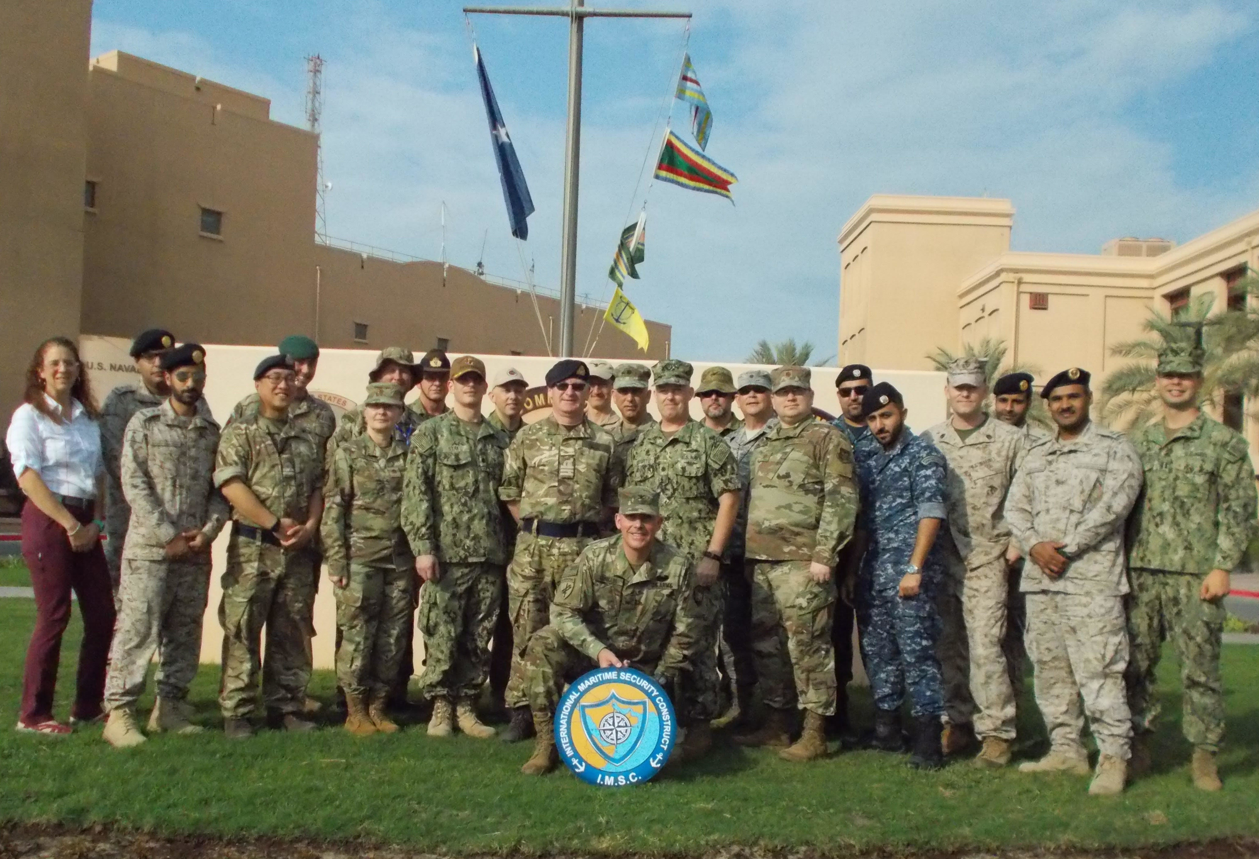 U.S. Army Reserve Col. John Conklin, center, poses for a photo with service members and a DoD civilian from the Joint Planning Support Element and members of the International Maritime Security Construct in front of the Combined Maritime Forces Headquarters, Naval Support Activity, Bahrain, Nov. 25, 2019.